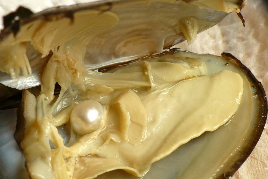 Pearls